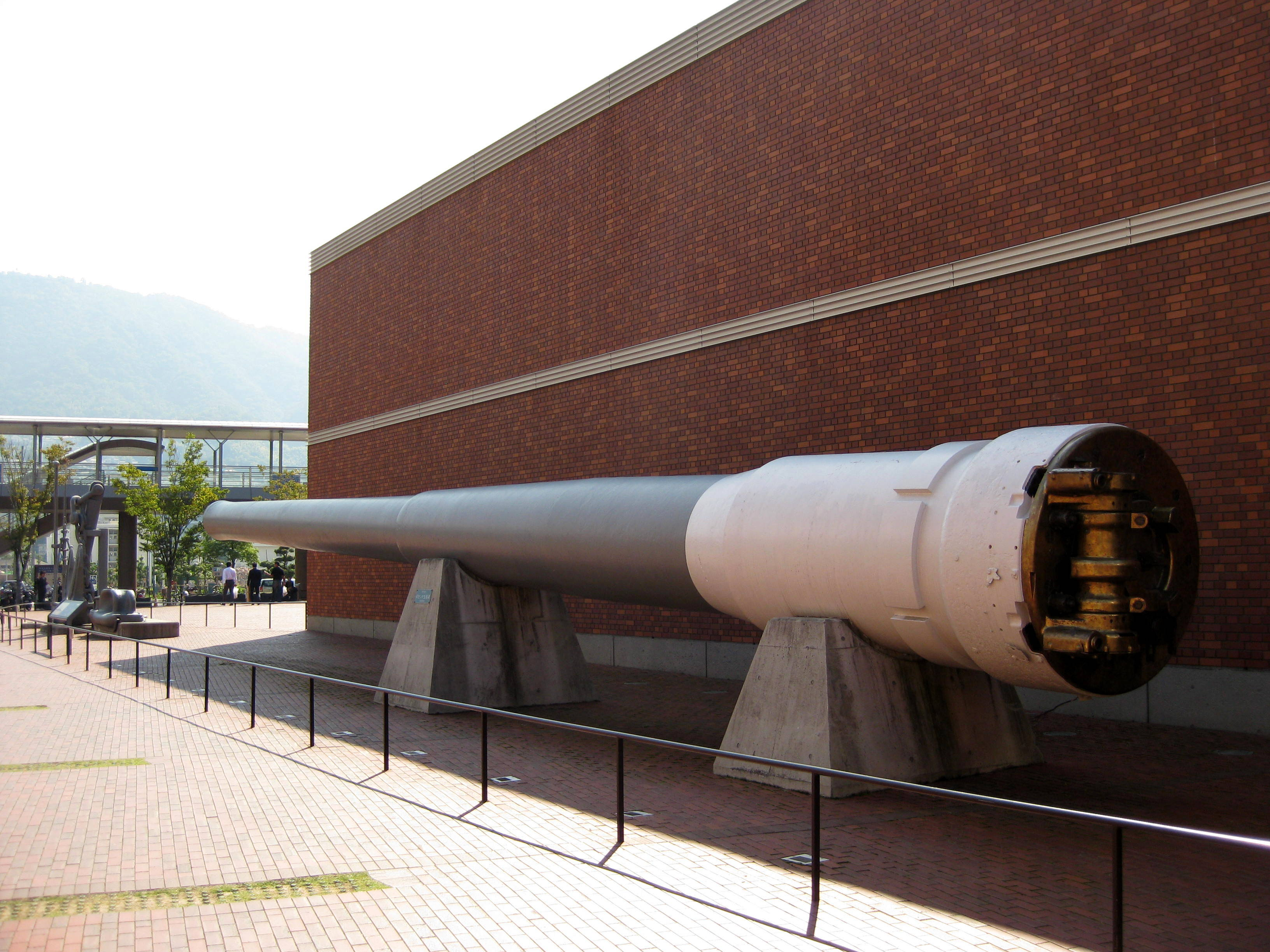 A 16.1 inch gun from the Japanese battleship Mutsu on display outside the Yamato Museum in October 2008